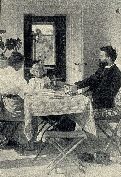 Paul Ernst und seine Familie in Weimar, c. 1904